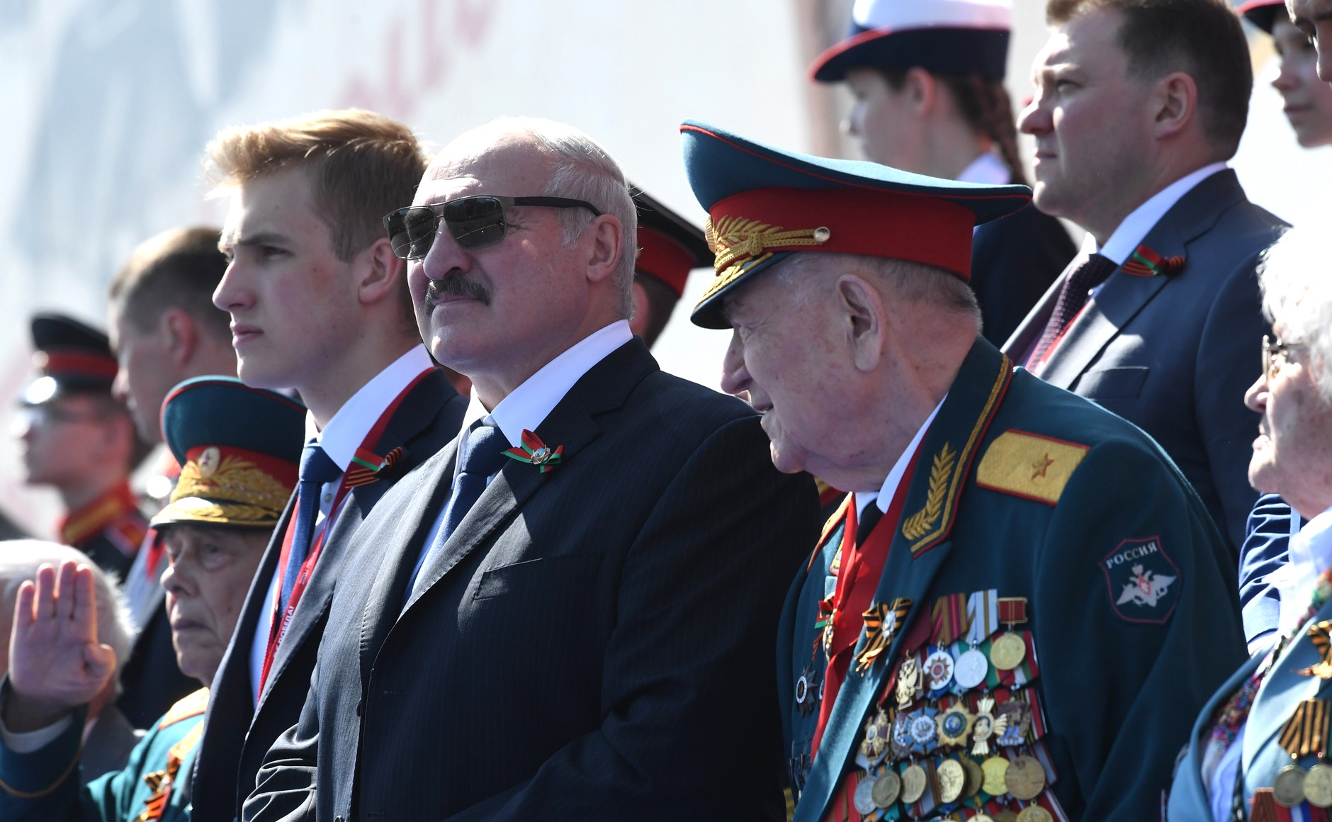 2020 Moscow Victory Day Parade